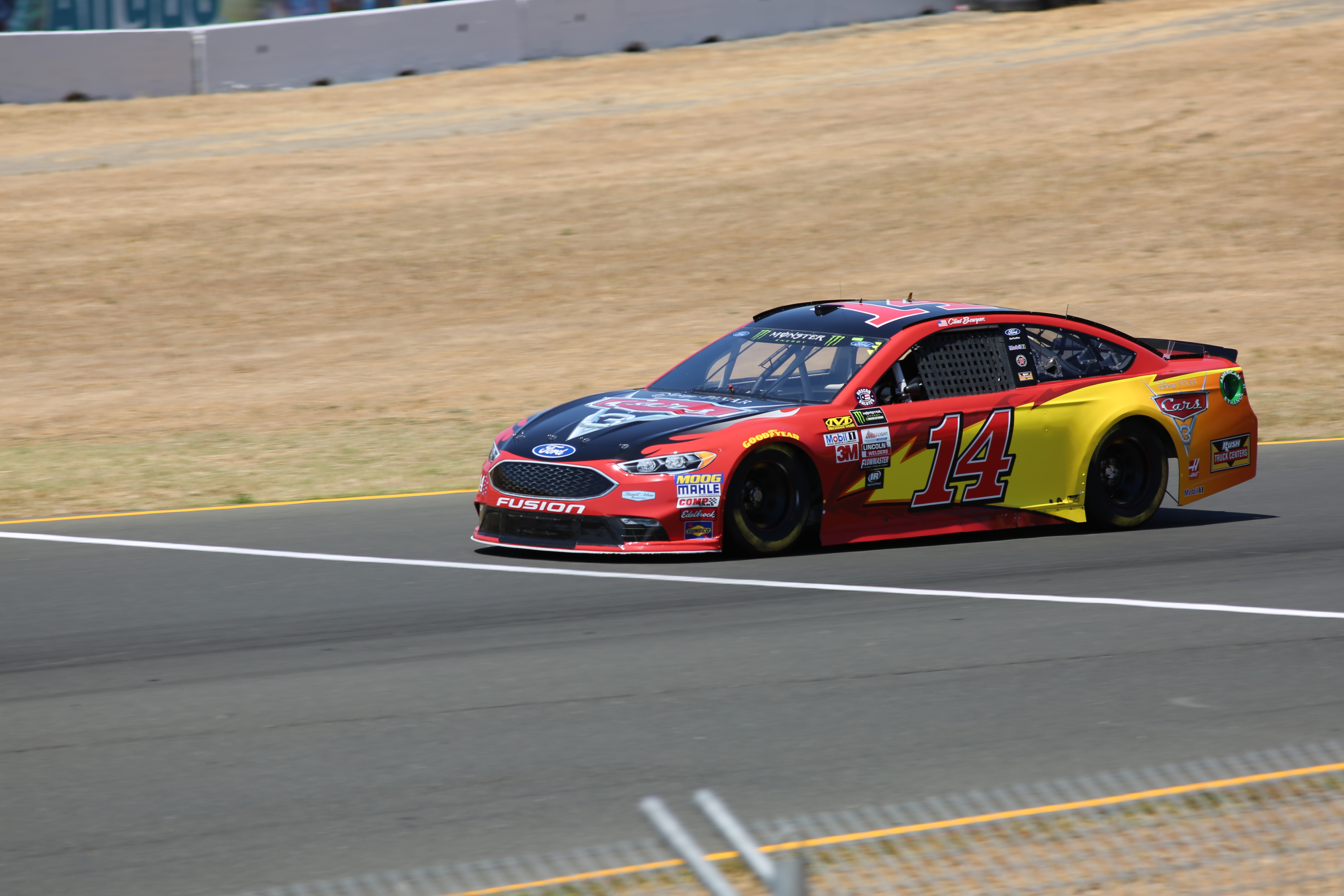 Clint Bowyer's No. 14 Cars 3 Ford at Sonoma Raceway in 2017